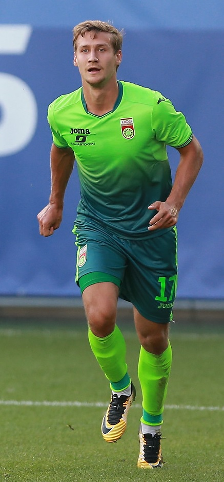 Dmitri Zhivoglyadov with FC Ufa in a game against FC Dynamo Moscow.